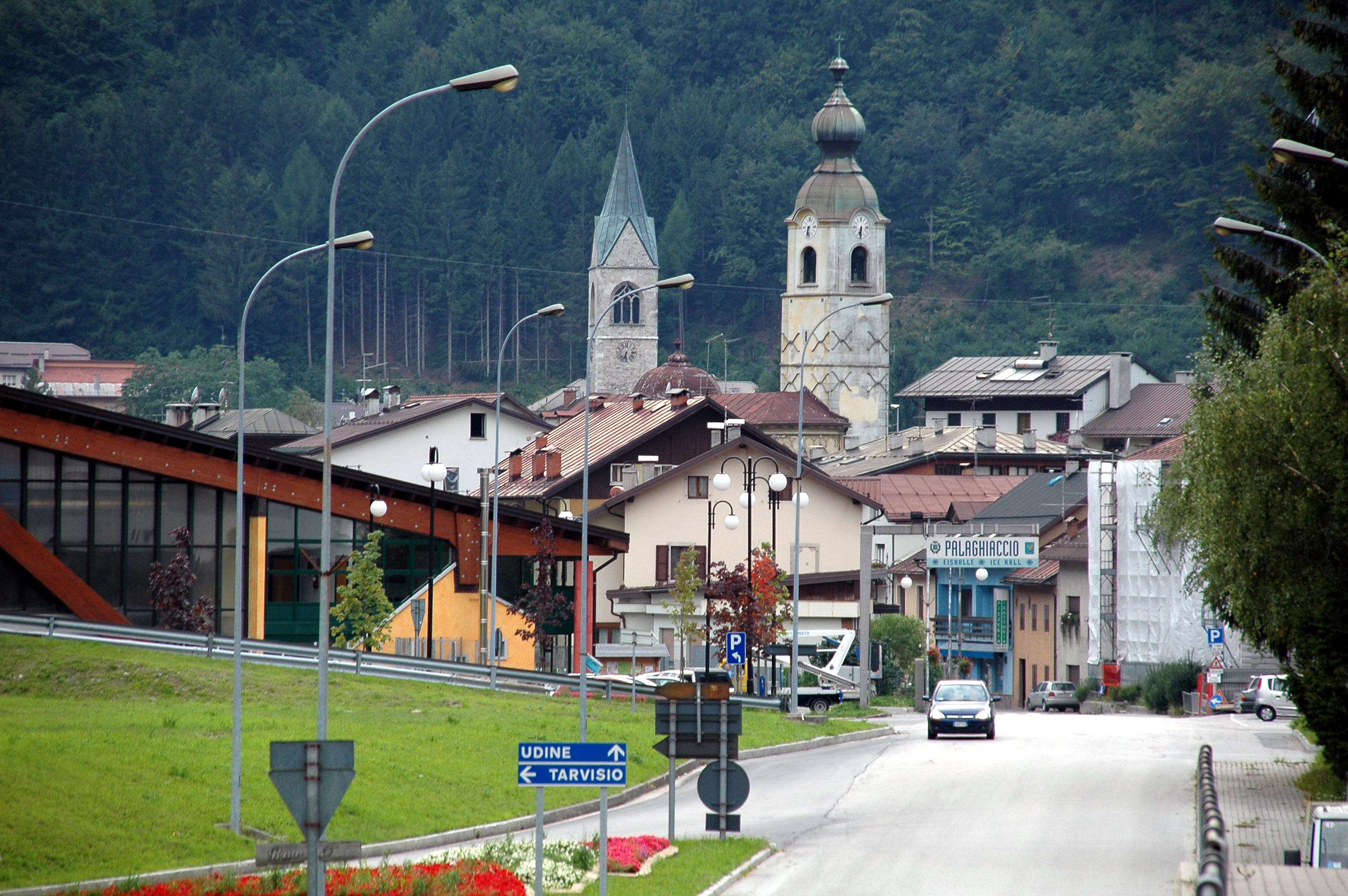 View of Pontebba in the Val Canale, region Friuli-Venezia Giulia, Italy